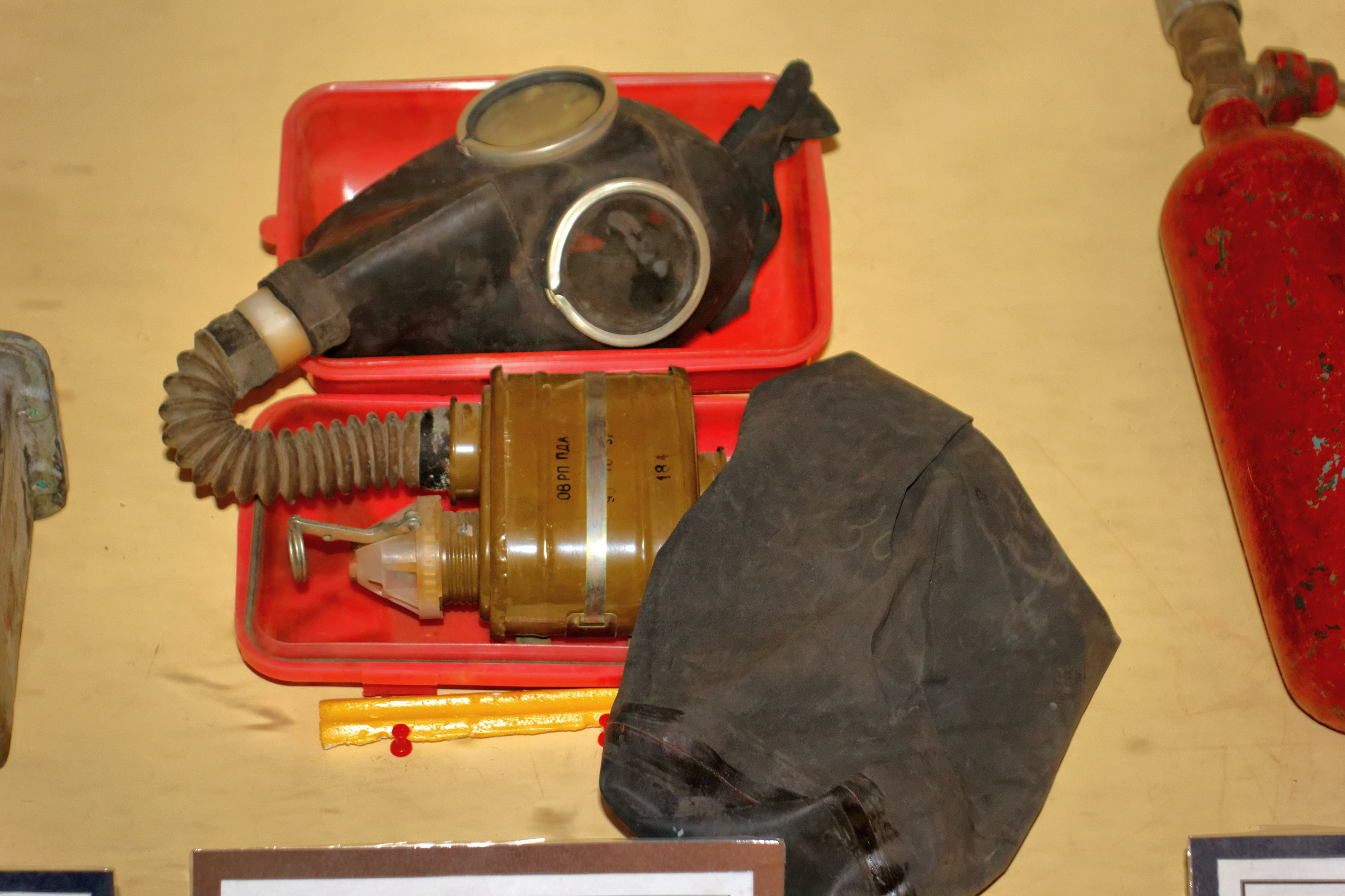 Balaklava. Naval museum complex (Object 825 GTS). Portable respiratory vehicle of submariner